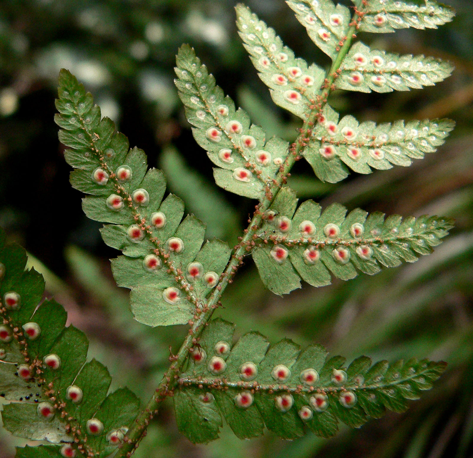 "Rumohra adiantiformis" at the San Francisco Botanical Garden (apparently mislabeled, appears to be Dryopteris erythrosora)